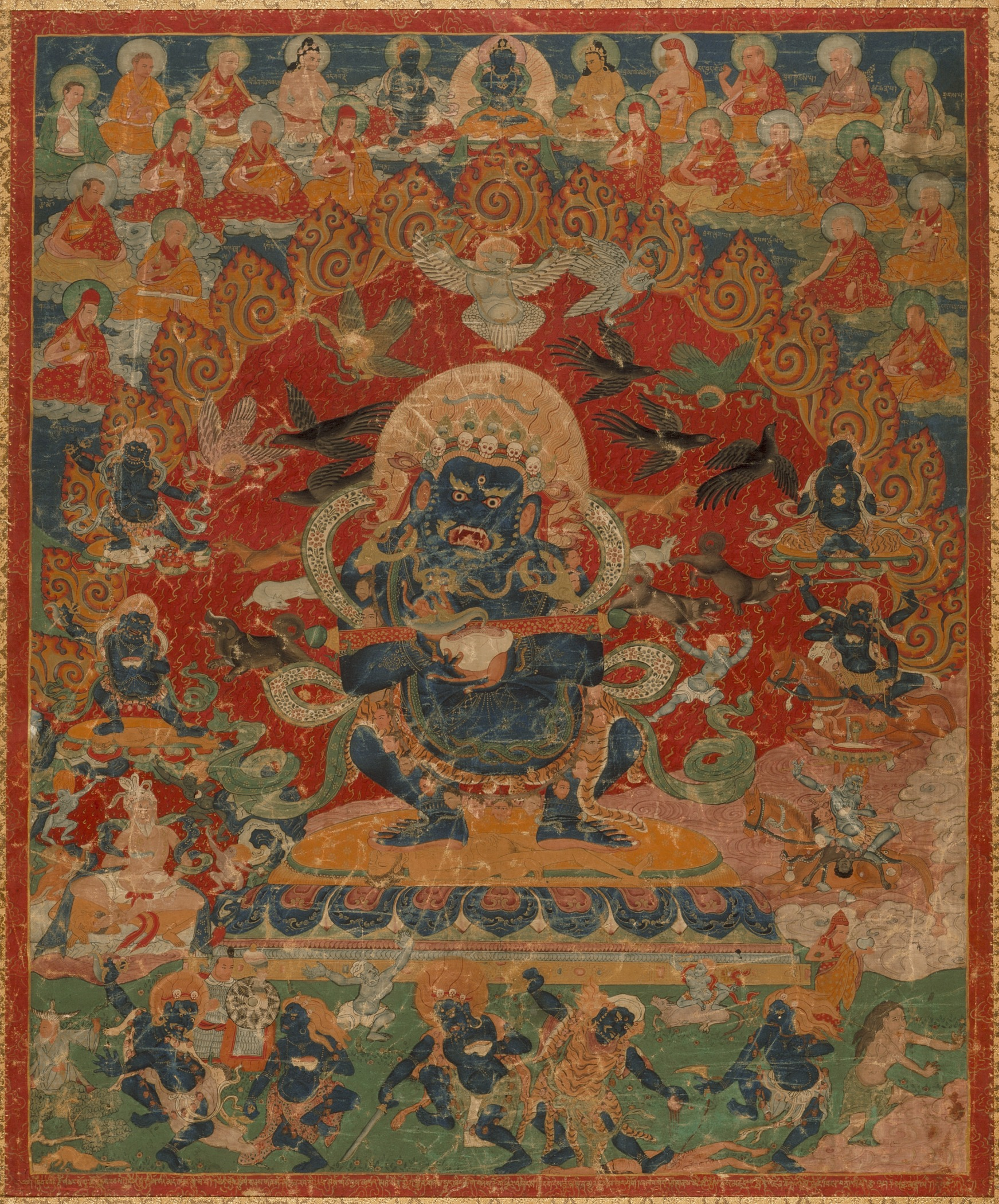 Central Tibet, Ngor Monastery, circa 1700 Paintings Mineral pigments on cotton cloth From the Nasli and Alice Heeramaneck Collection, Museum Associates Purchase (M.77.19.11) South and Southeast Asian Art